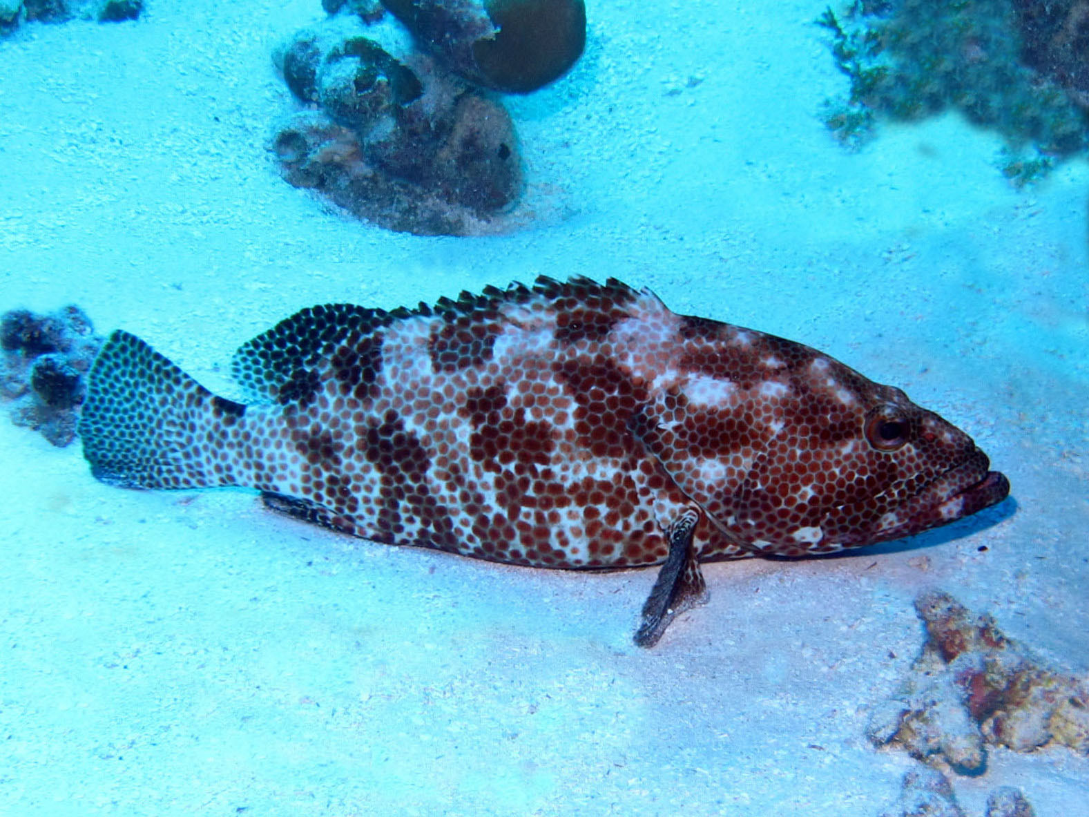 Epinephelus tauvina from French Polynesia